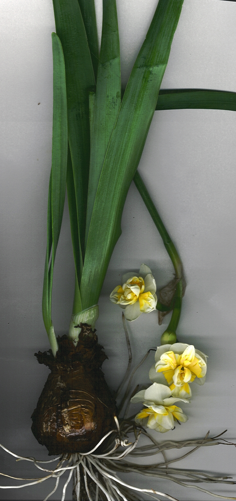 Narcissus sp. (plant). Location: Maui, Kula